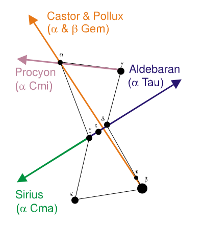 Using Orion to find Aldebaran, Procyon, Sirius, Castor and Pollux.